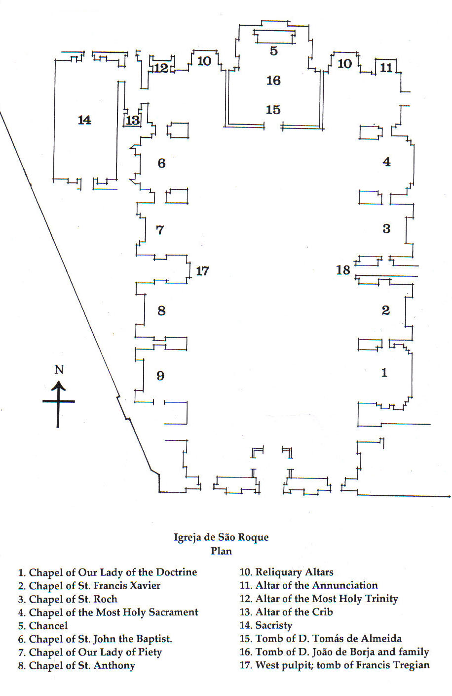 Floor plan of the Igreja de São Roque (Church of St. Roque/Roch) in Lisbon, created by Ron B. Thomson